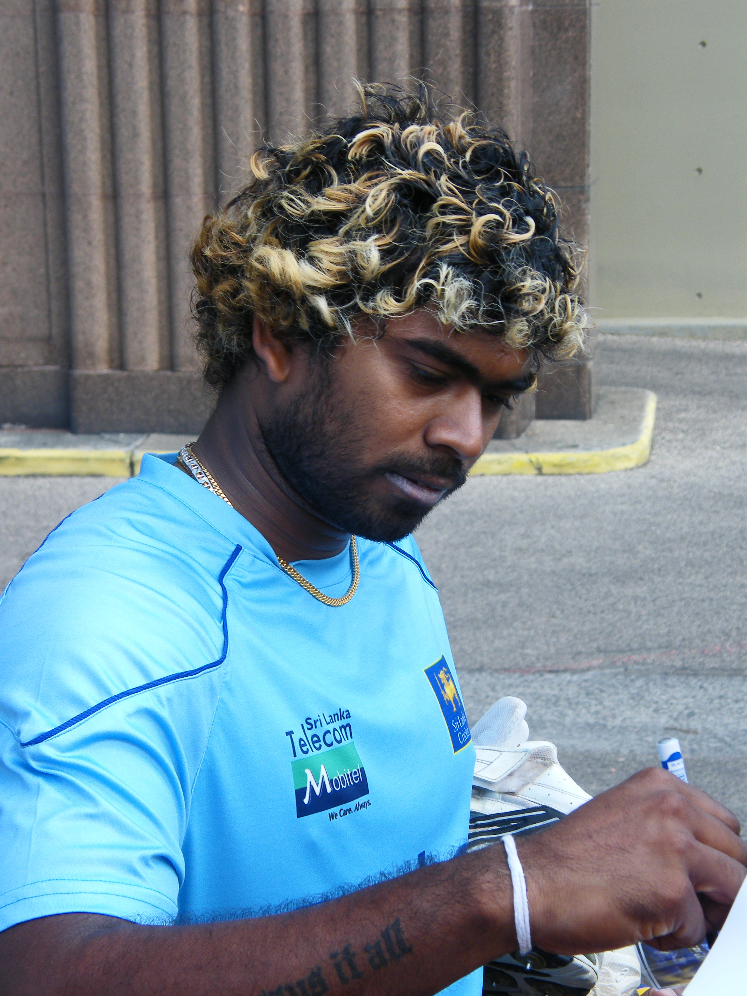 October 2010 at the Sydney Cricket Ground.